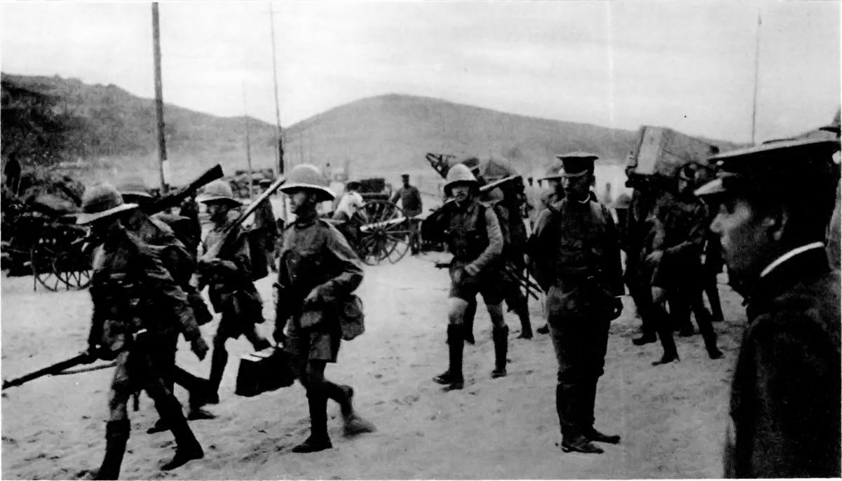 Photograph of British troops landing to assist Japanese troops in capturing Tsingtao from Germany, 1914. Illustrated War News caption : "WATCHED WITH INTEREST BY THEIR "GALLANT JAPANESE COMRADES": BRITISH TROOPS LANDED TO CO-OPERATE AGAINST TSING-TAU. In his telegram to the Japanese Minister of War after the capture of Tsing-tau, Lord Kitchener said: "Please accept my warmest congratulations on the success of the operations against Tsing-tau. Will you be so kind as to express my felicitations to the Japanese forces engaged? The British Army is proud to have been associated with its gallant Japanese comrades in this enterprise." The British force, under Brigadier-General N. Barnardiston, Commanding the Forces in North China, landed in Lao-shan Bay on September 24. Some Indian troops also took part in the fighting. The Emperor of Japan sent a message to the British force saying that he "deeply appreciates the brilliant deeds of the British Army and Navy co-operating with the Japanese."—[Photo. by C.N.]"